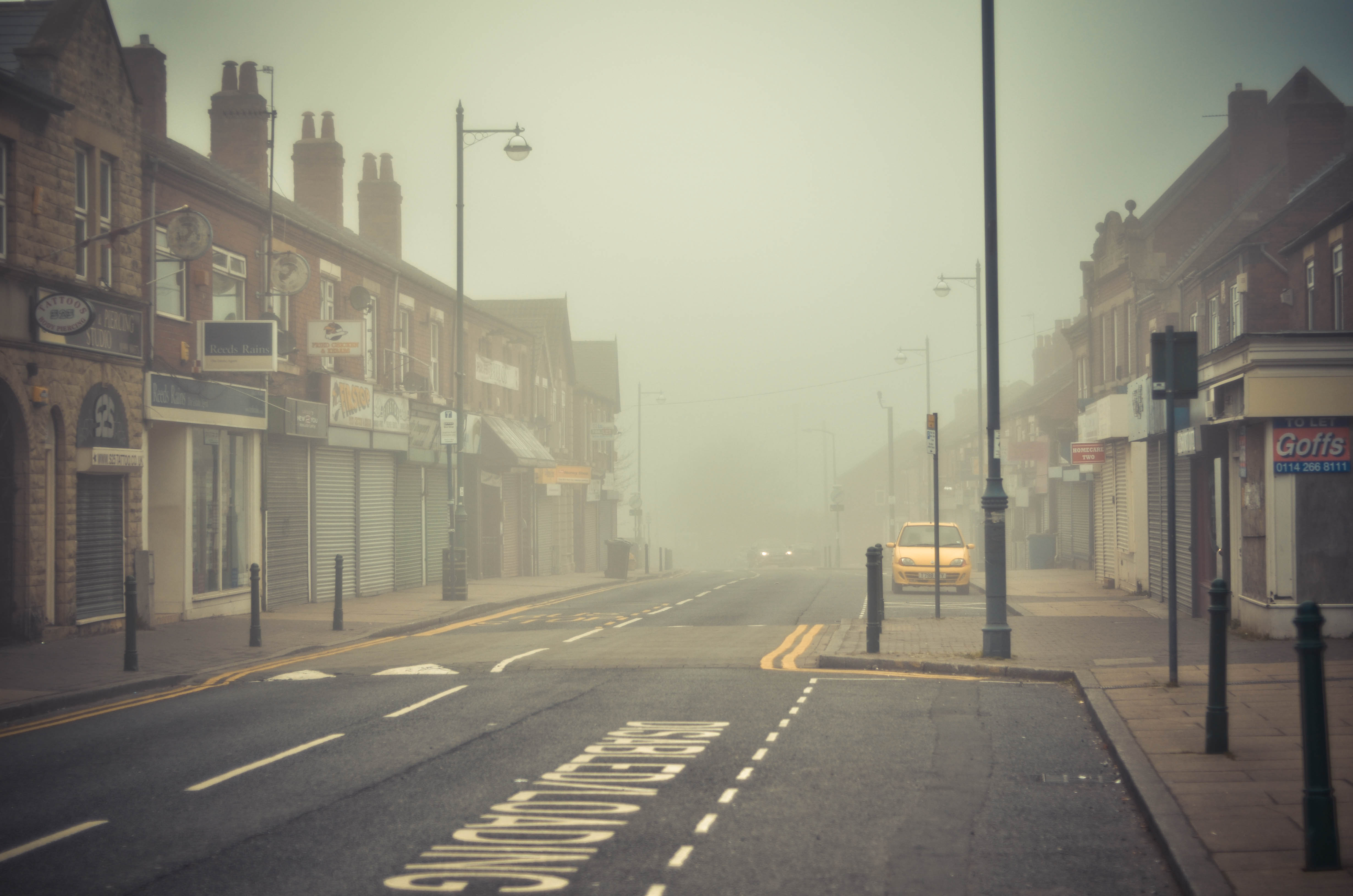 Laughton Road, Dinnington, in the fog.